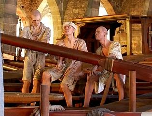 Rowers in spanish galley La Real.